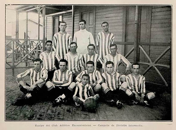 Club Atlético Excursionistas, 1924 División Intermedia champion. With this title, the team promoted to Primera División of Argentina.